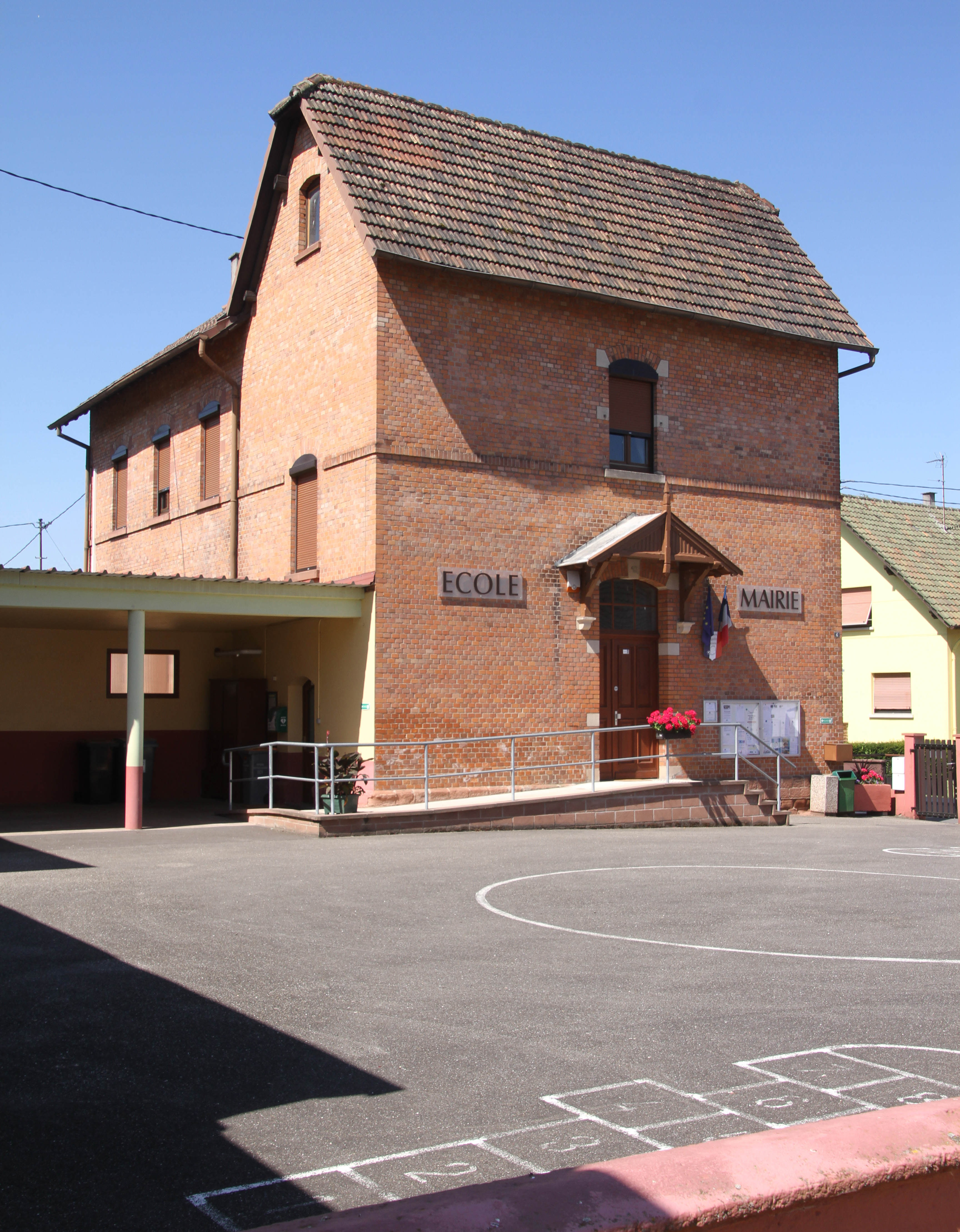 Mairie in Kesseldorf.